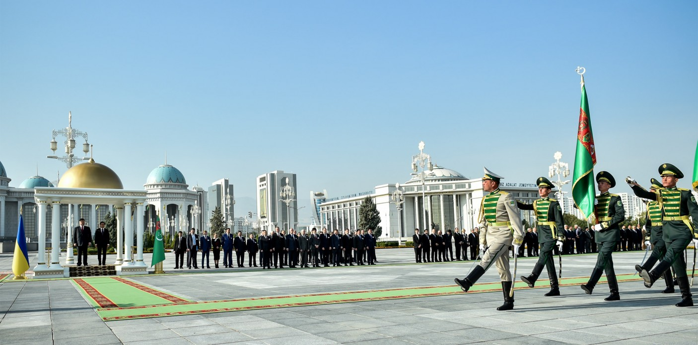 President Petro Poroshenko noted that his visit to Turkmenistan opened new opportunities for Ukrainian companies in the cooperation between the two countries.